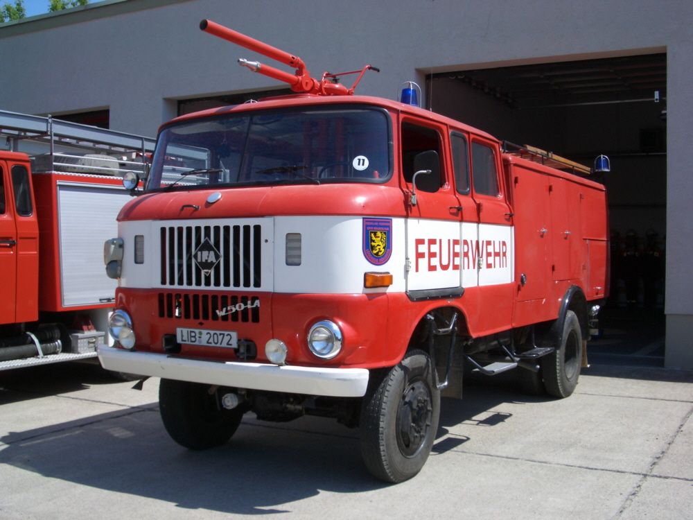 Fire engine of Mühlberg/Elbe a town in the former East Germany